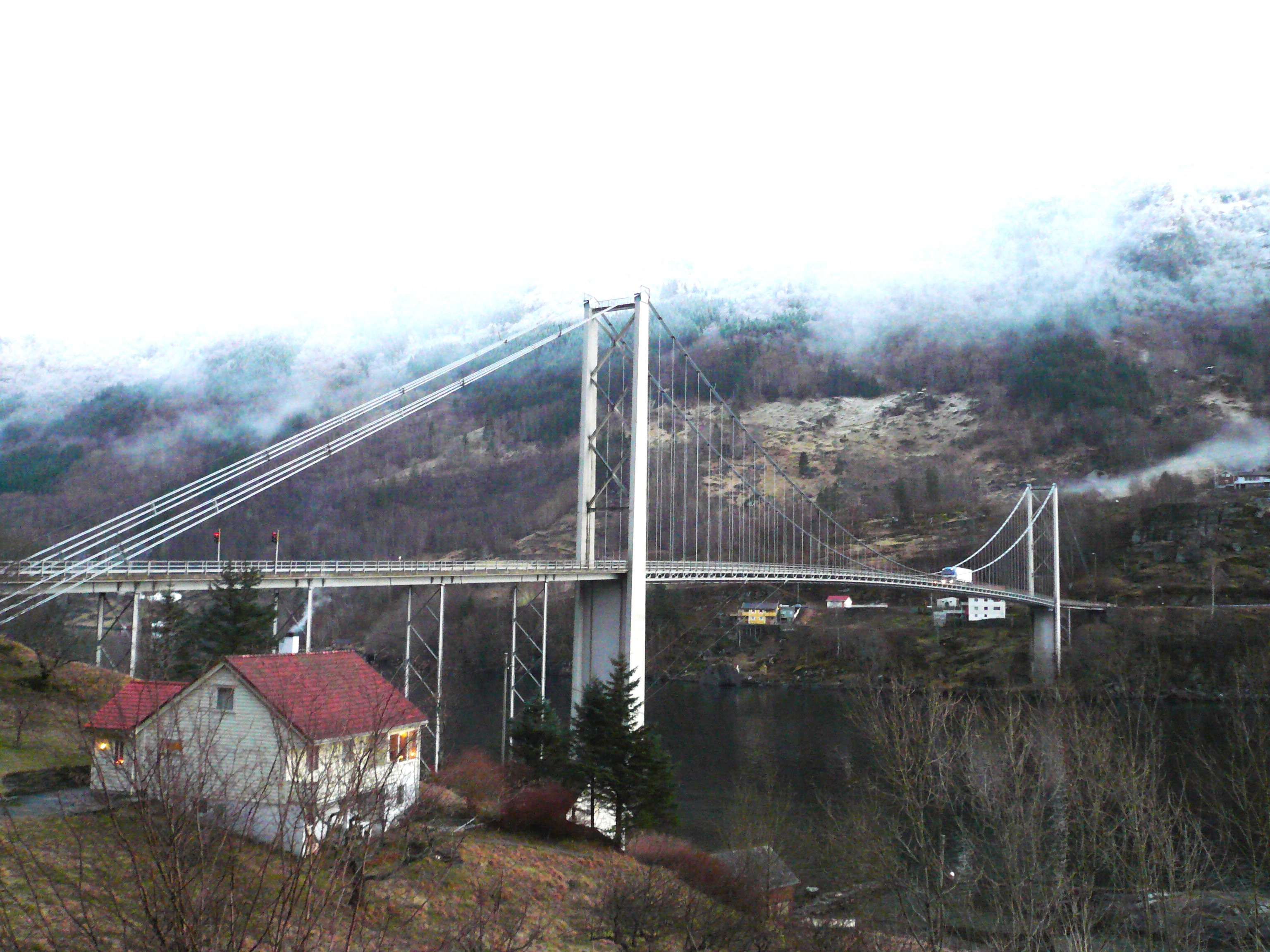 Fyksesund Bridge (Norwegian: Fyksesundbrua) is a suspension road bridge that spans over Fyksesund on the road between Øystese and Ålvik in Hardanger, Norway.